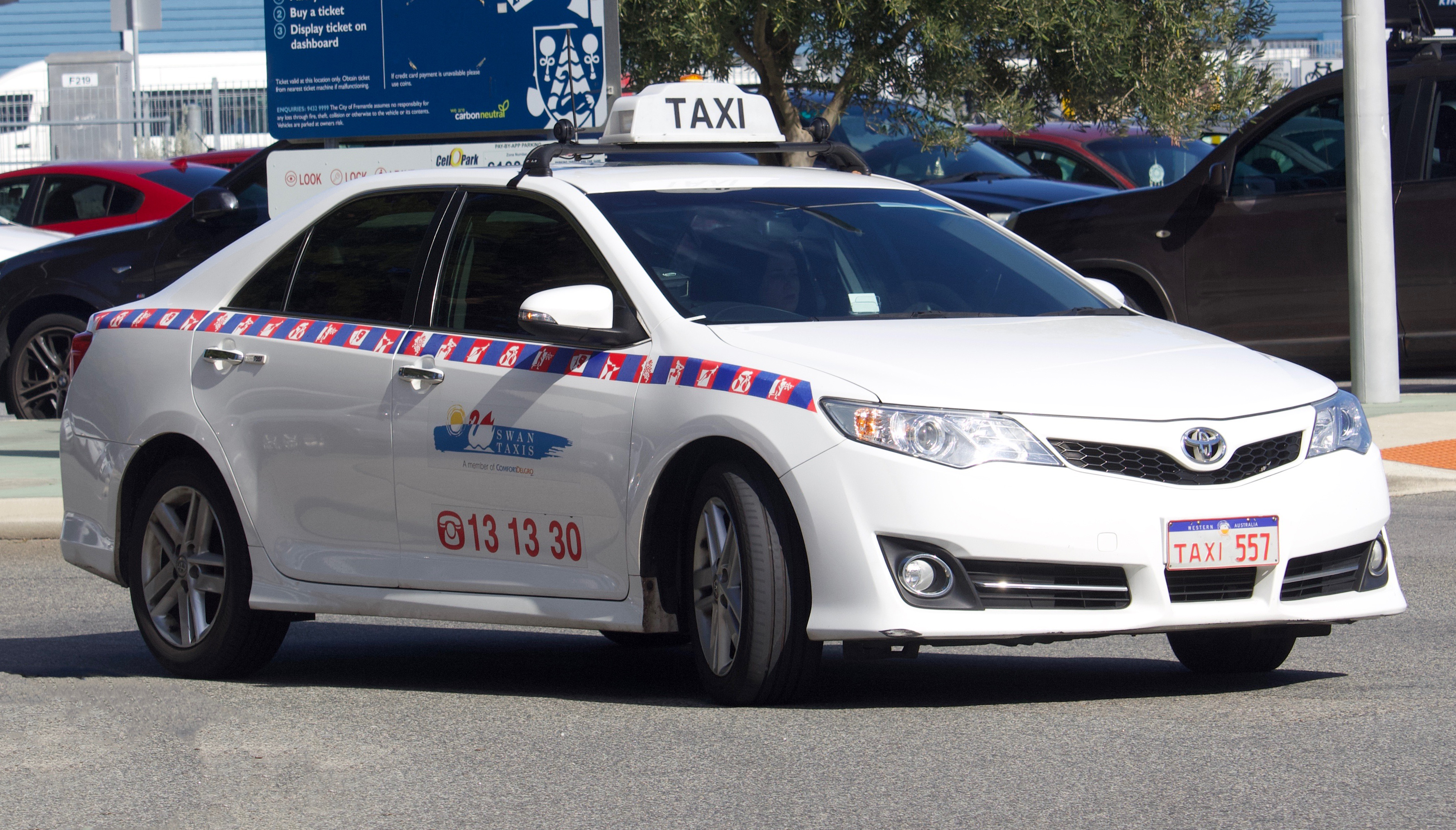 2012-2015 Toyota Camry (ASV50R) Atara S sedan, Swan Taxis. Photographed in Fremantle, Western Australia, Australia.